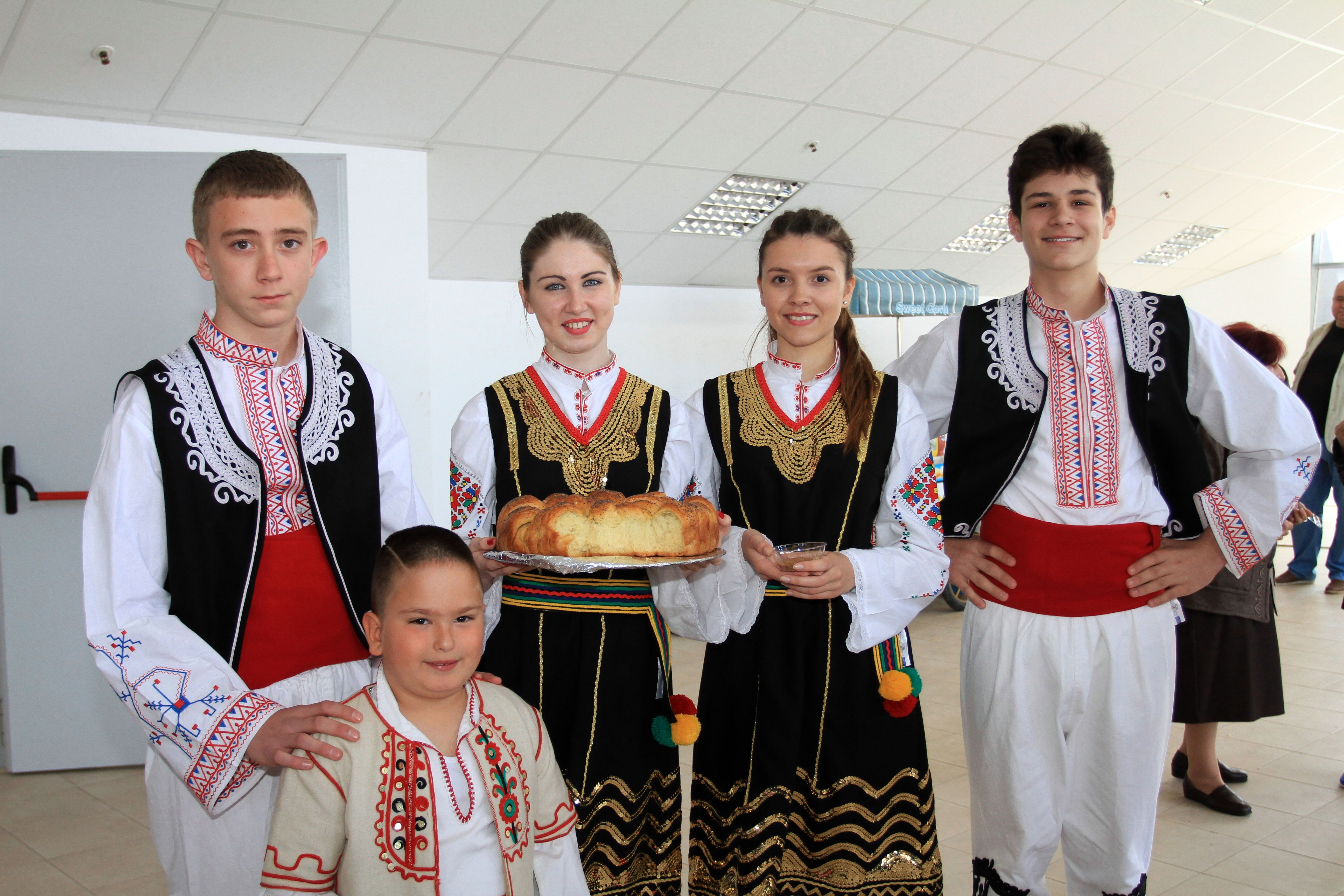 Children in Bulgarian national costumes welcome guests during the Folklore Festival, Slivnitsa, Bulgaria. This photo has been taken in the country: Bulgaria